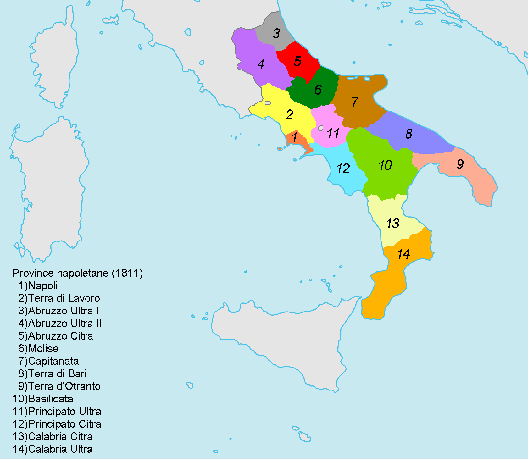 Map of the provinces of the Kingdom of Naples in 1811